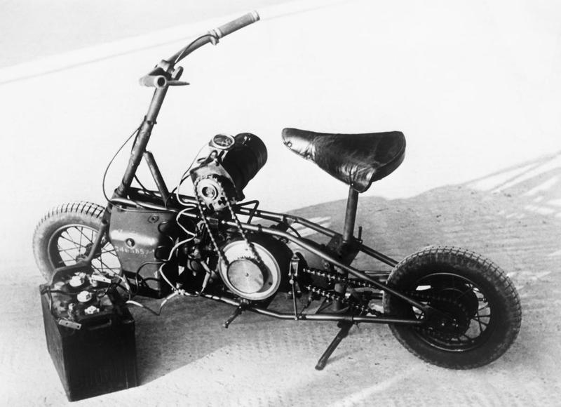 Service of of Major John Brown in Special Operations Executive (soe) at Sta Ix, the Frythe, Welwyn Garden City in the Second World War SOE clandestine equipment. Welbike fitted with a generator for charging the batteries of a wireless set.